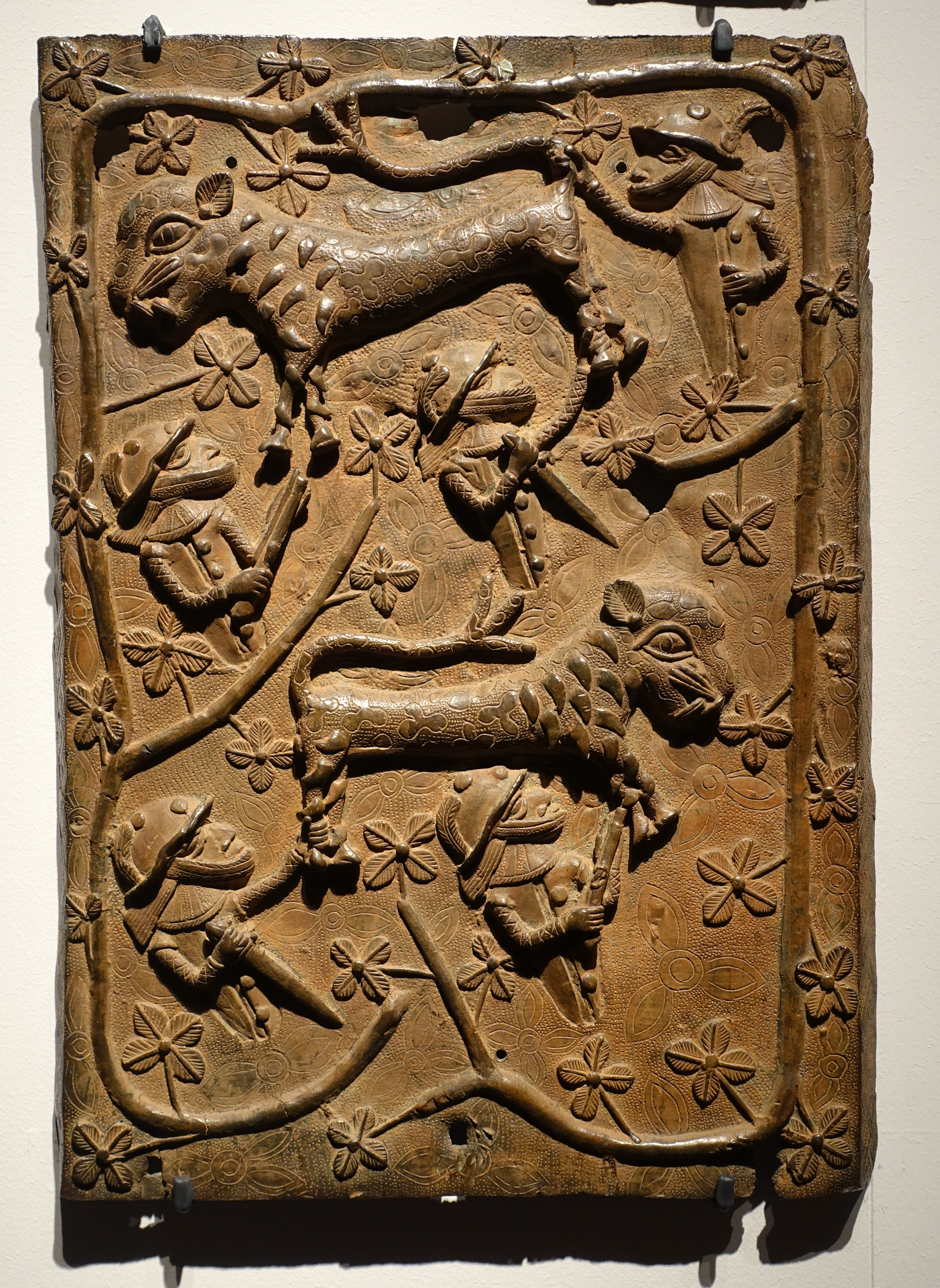 Brass plaque from the Kingdom of Benin, 16th-17th century, exhibited in the Ethnological Museum, Berlin, Germany. This artwork is in the public domain because the artist died more than 70 years ago.